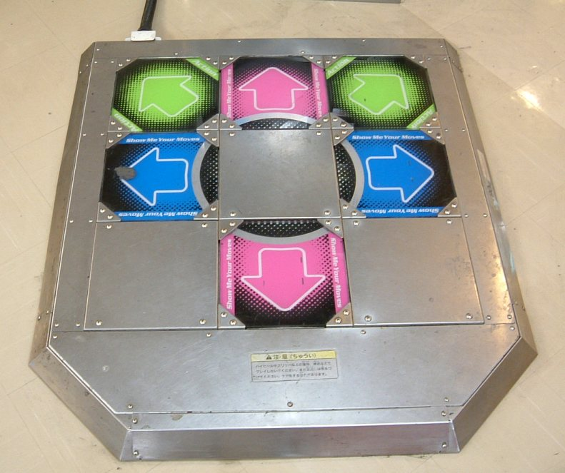 Dance Dance Revolution Solo Panel taken by User:RadioActive 2005/03/01